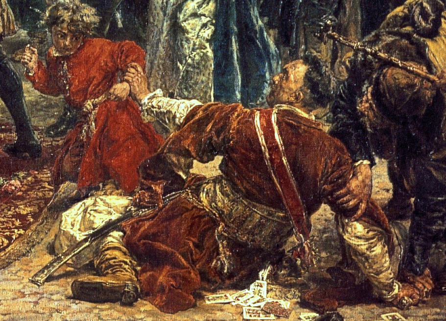 Jan Suchorzewski, part of Matejko's painting (File:Konstytucja 3 Maja.jpg)